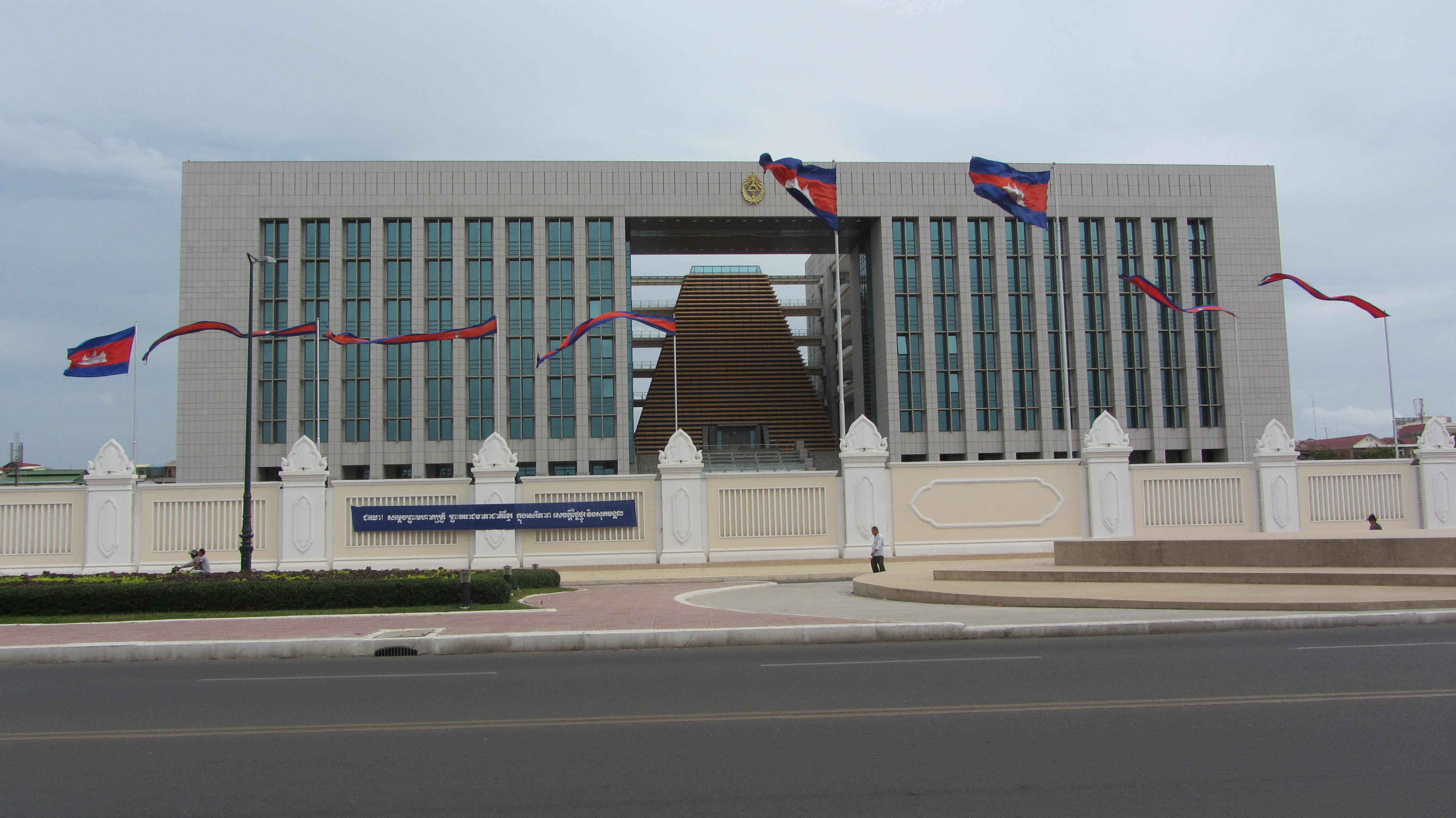 government building